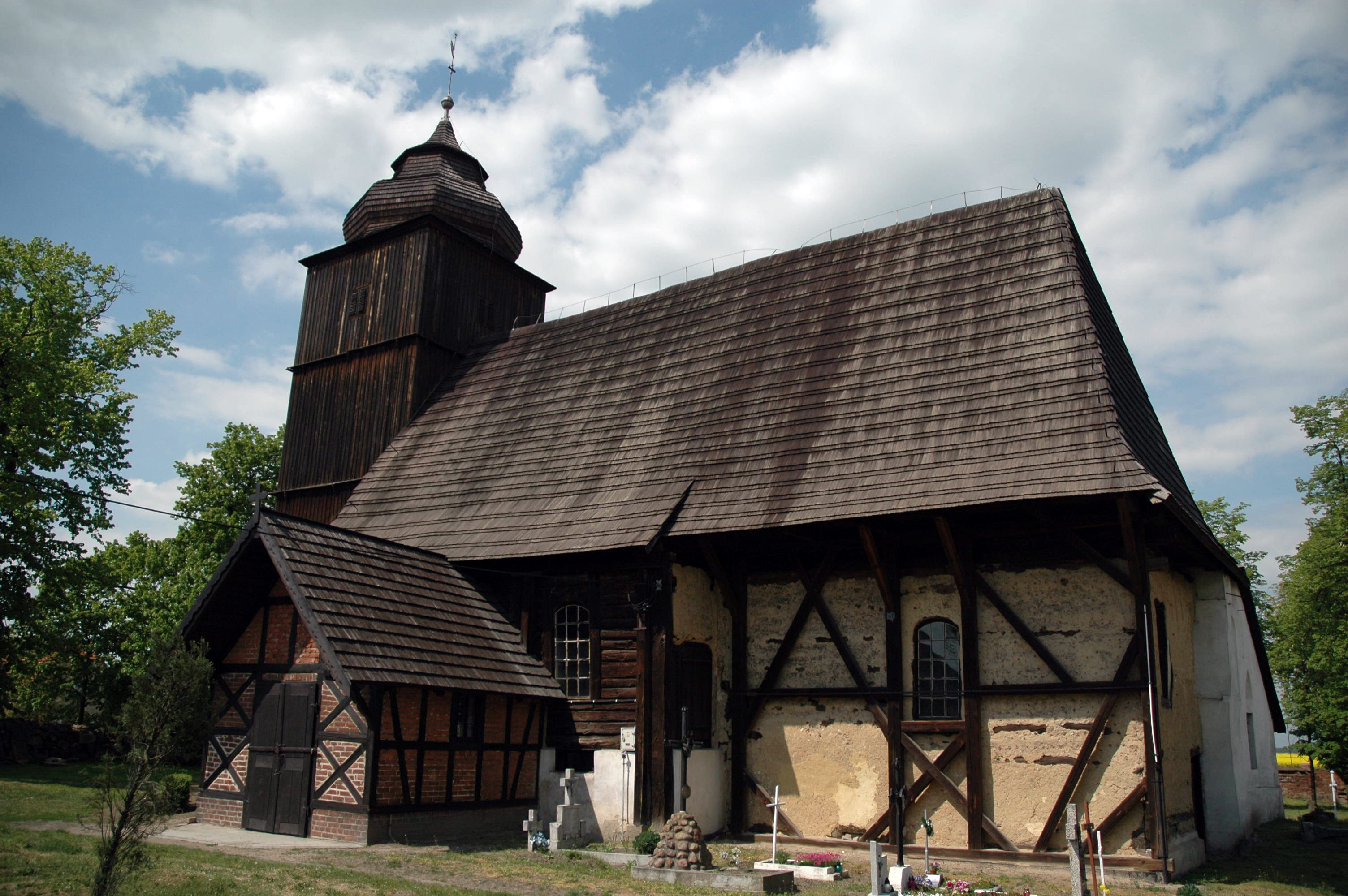 Obórki, ss. Peter and Paul church.